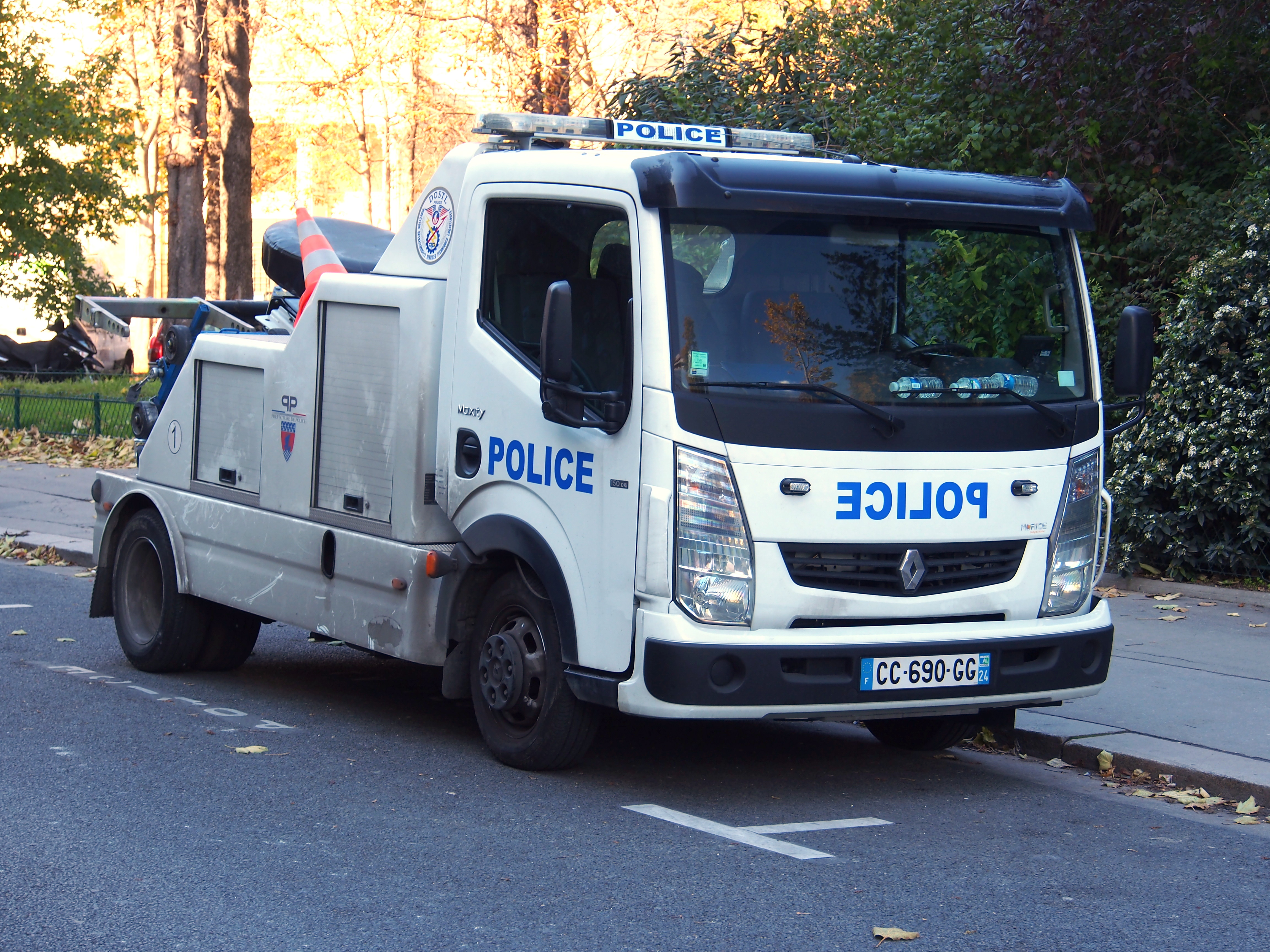 Renault Maxity150dxi DOSTL police Paris, with "POLICE" in mirror writing ("ECILOP").